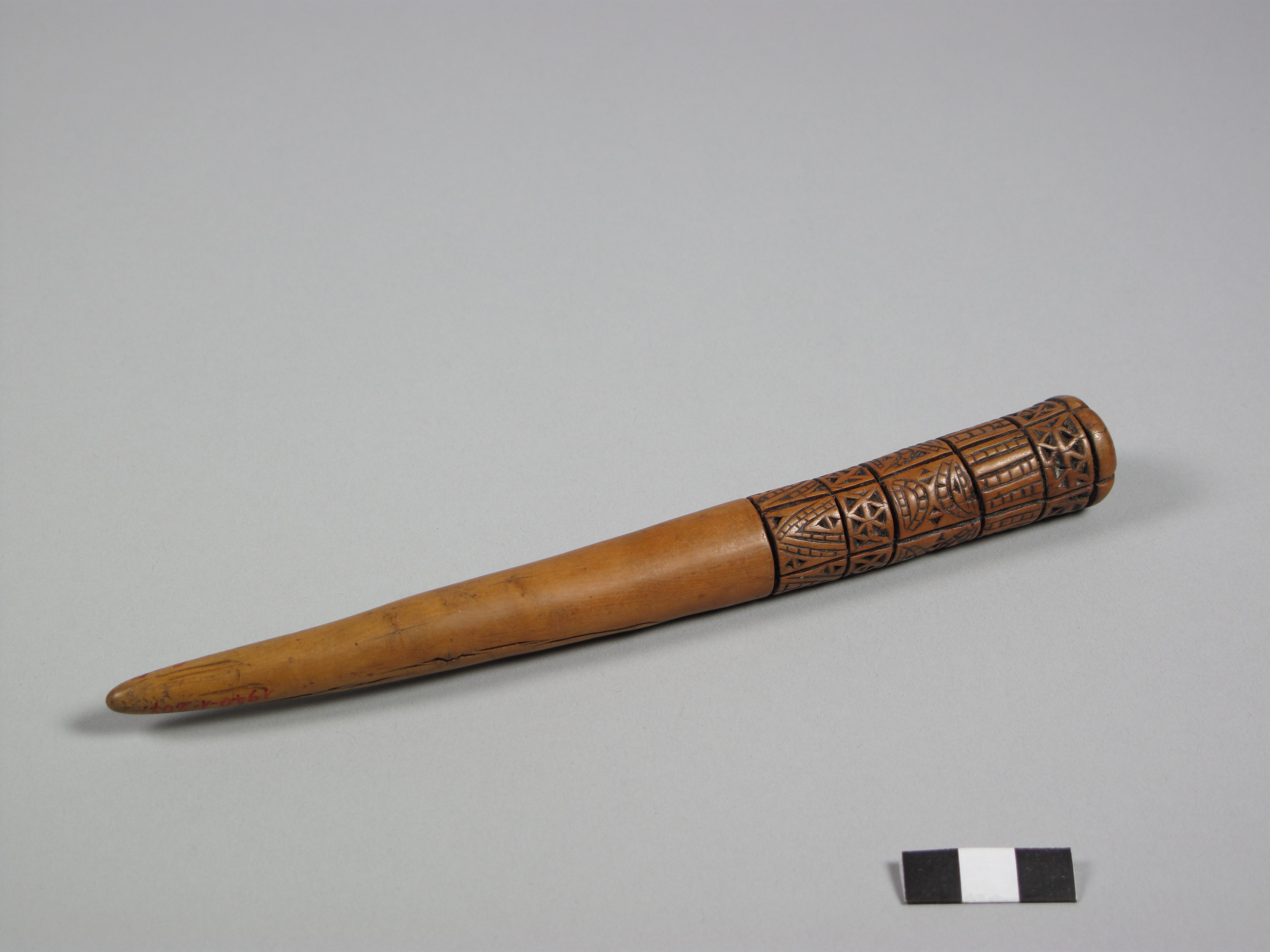 Stick to tie sheaves